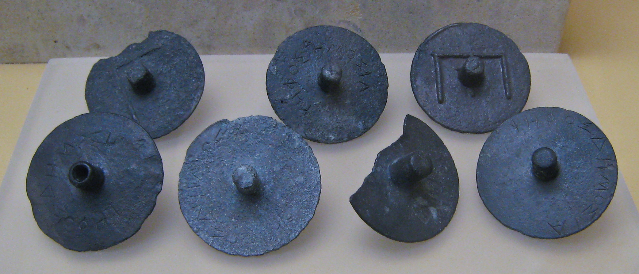 These disks were used to cast a juror's vote on a case. They would cover up the top when submitting their secret vote, which if closed meant innocent and open (left bottom) meant guilty, or there was a hole in the soul. Ca. 300 BC. Ancient Agora Museum in Athens.